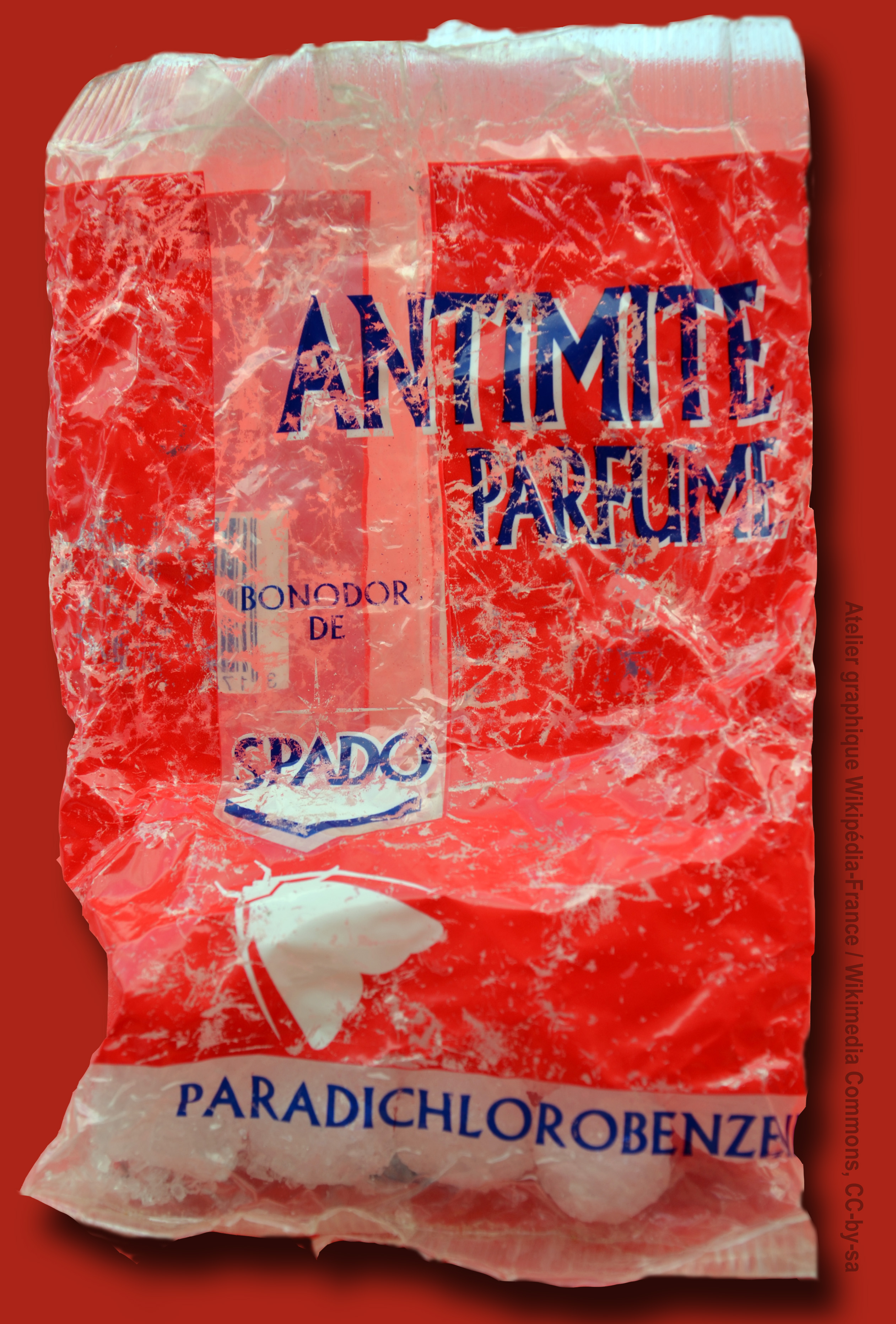 Paradichlorobenzene bag that can easily be confused with a packet of sweets (except for the smell) by a child. This type of product (carcinogenic, highly toxic to aquatic organisms) should have been banned by the end of 2007 on the recommendation of the AFSSET in France